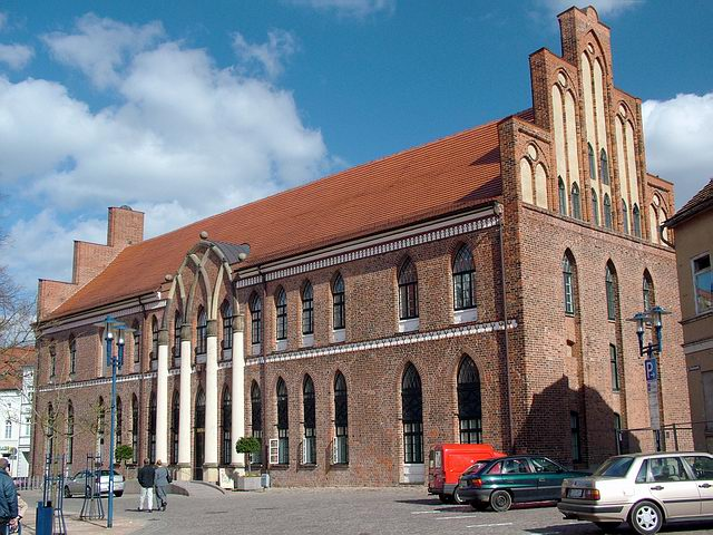 Townhall in Parchim, Mecklenburg-Vorpommern, Germany